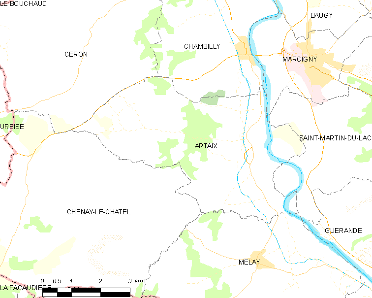 Map of French municipality